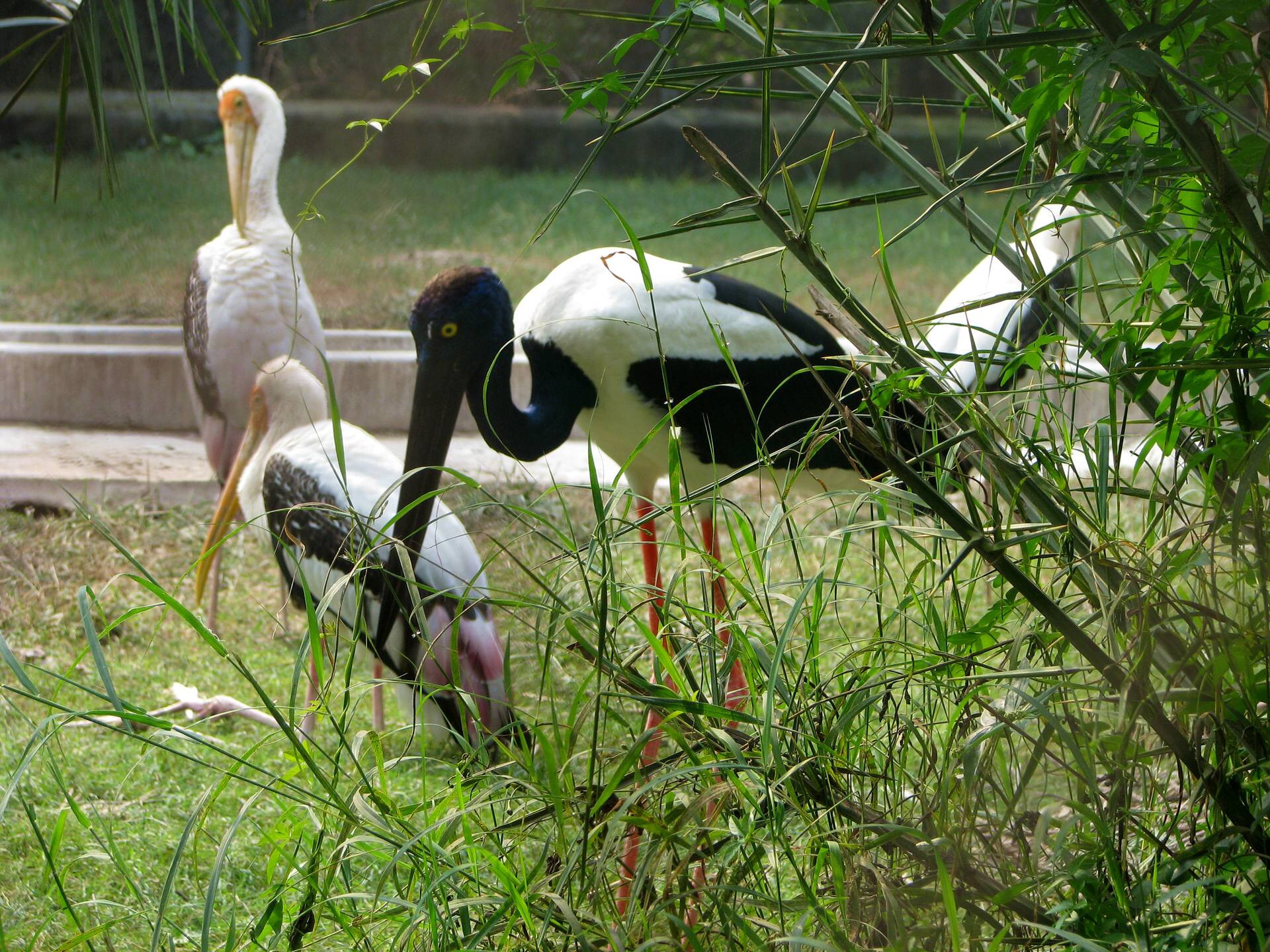 Some species in aviary complex